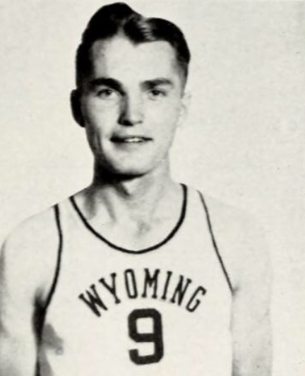 University of Wyoming basketball player Lew Roney from the 1943 “Wyo” yearbook.